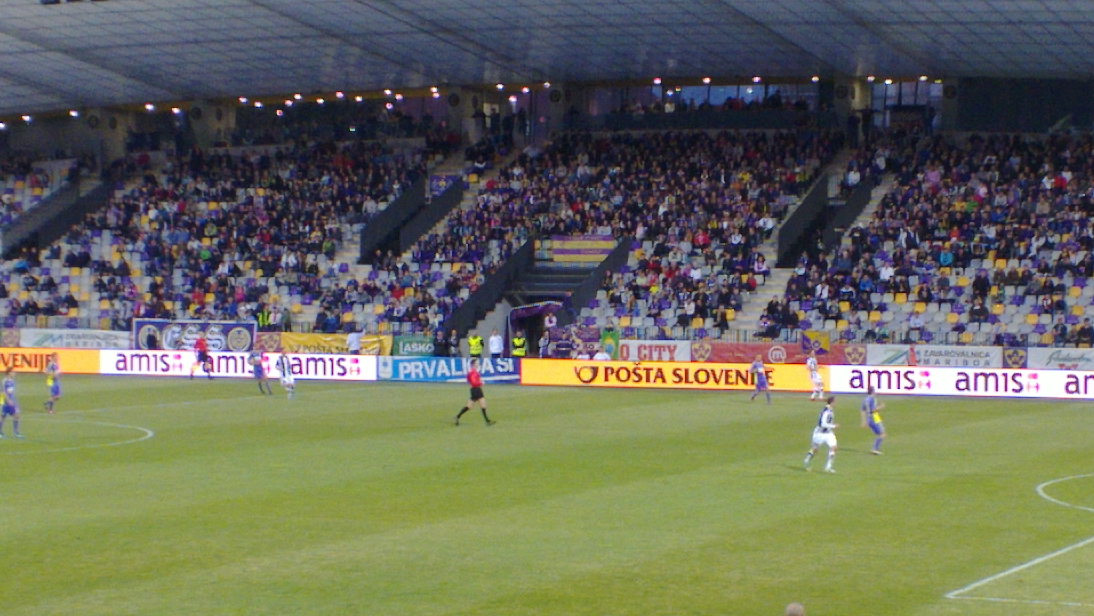 Maribor vs Mura 05 during a Slovenian league match in Ljudski vrt on 17 March 2012